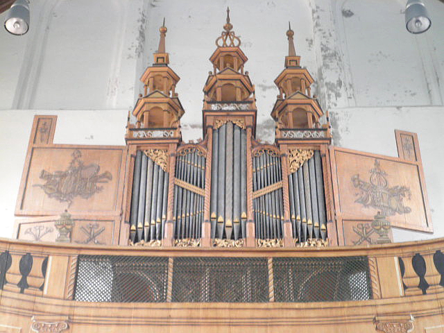 Possibly one of the oldest playable church organs in the Netherlands. Possibly build by P. Gerritz, changed by Pieter Backer, restored by Flentrop and others.